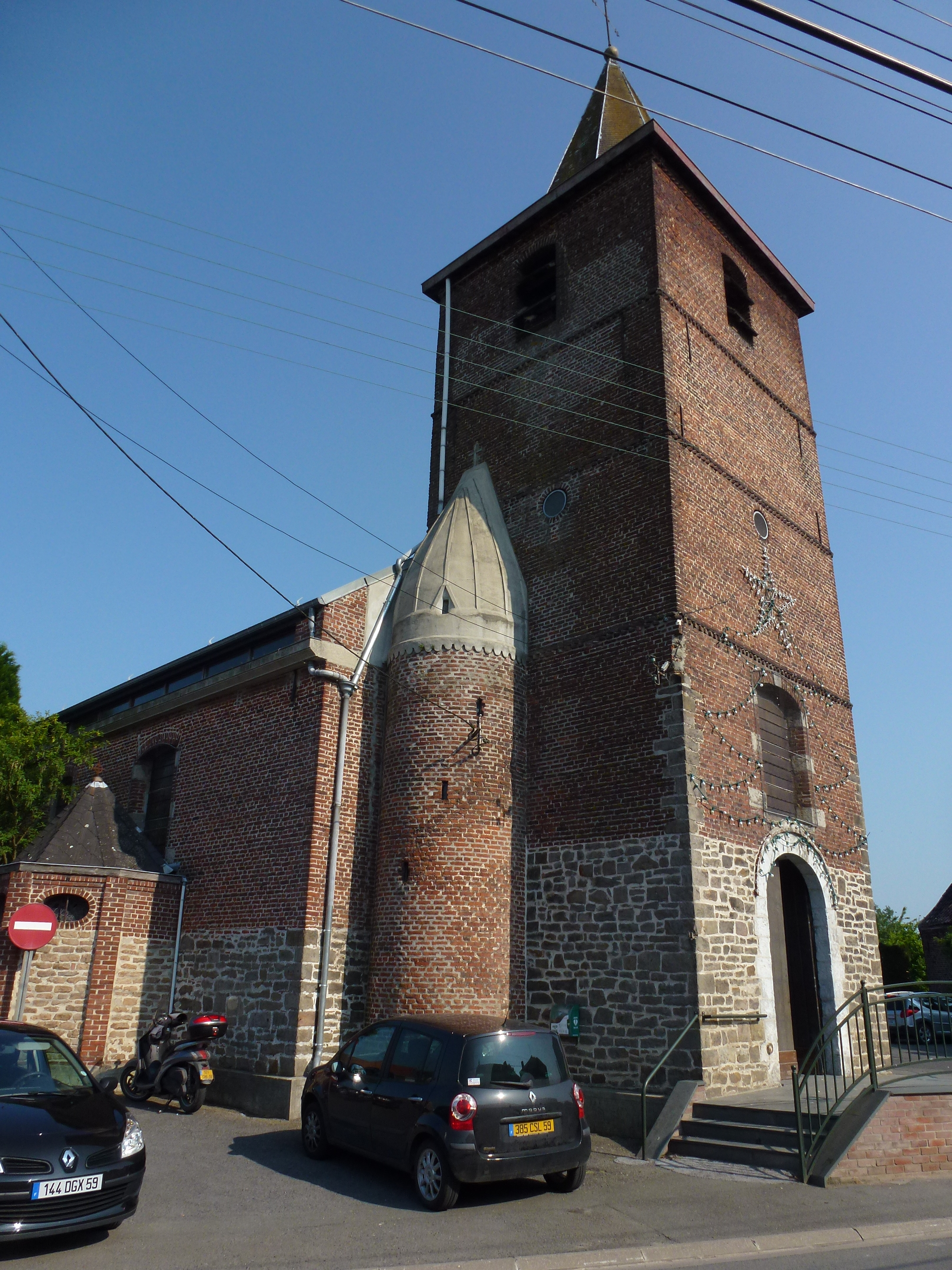 Rosult (Nord, Fr) église 01